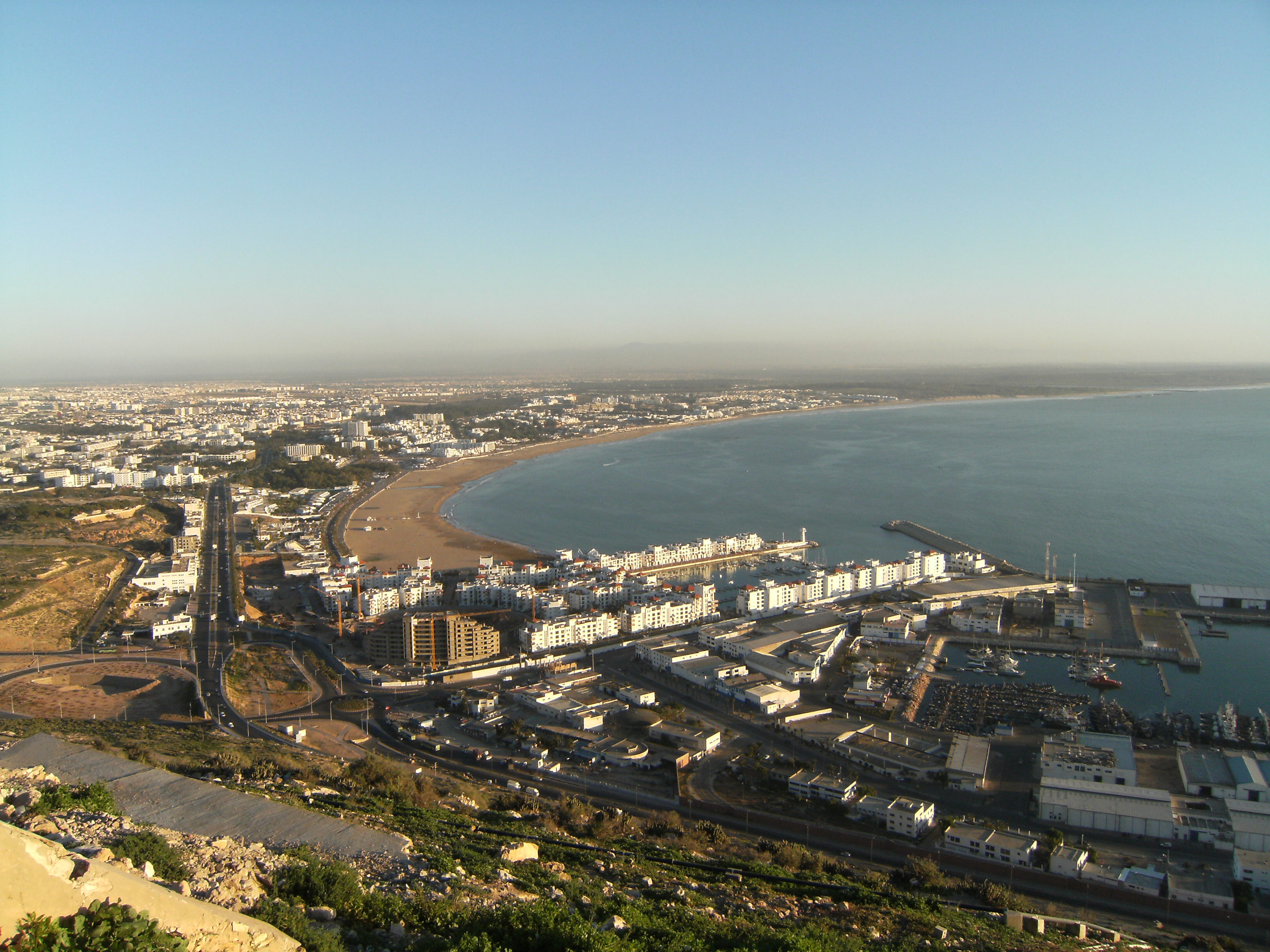 View form the Kasbah